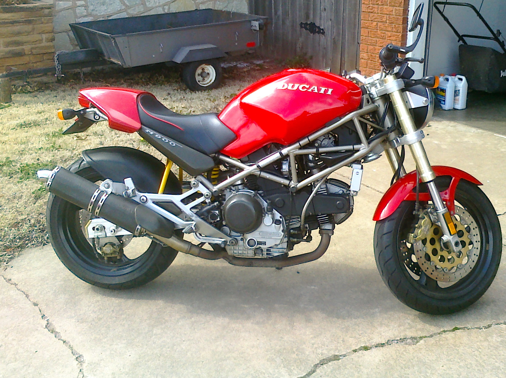 Red 1994 Ducati Monster M900